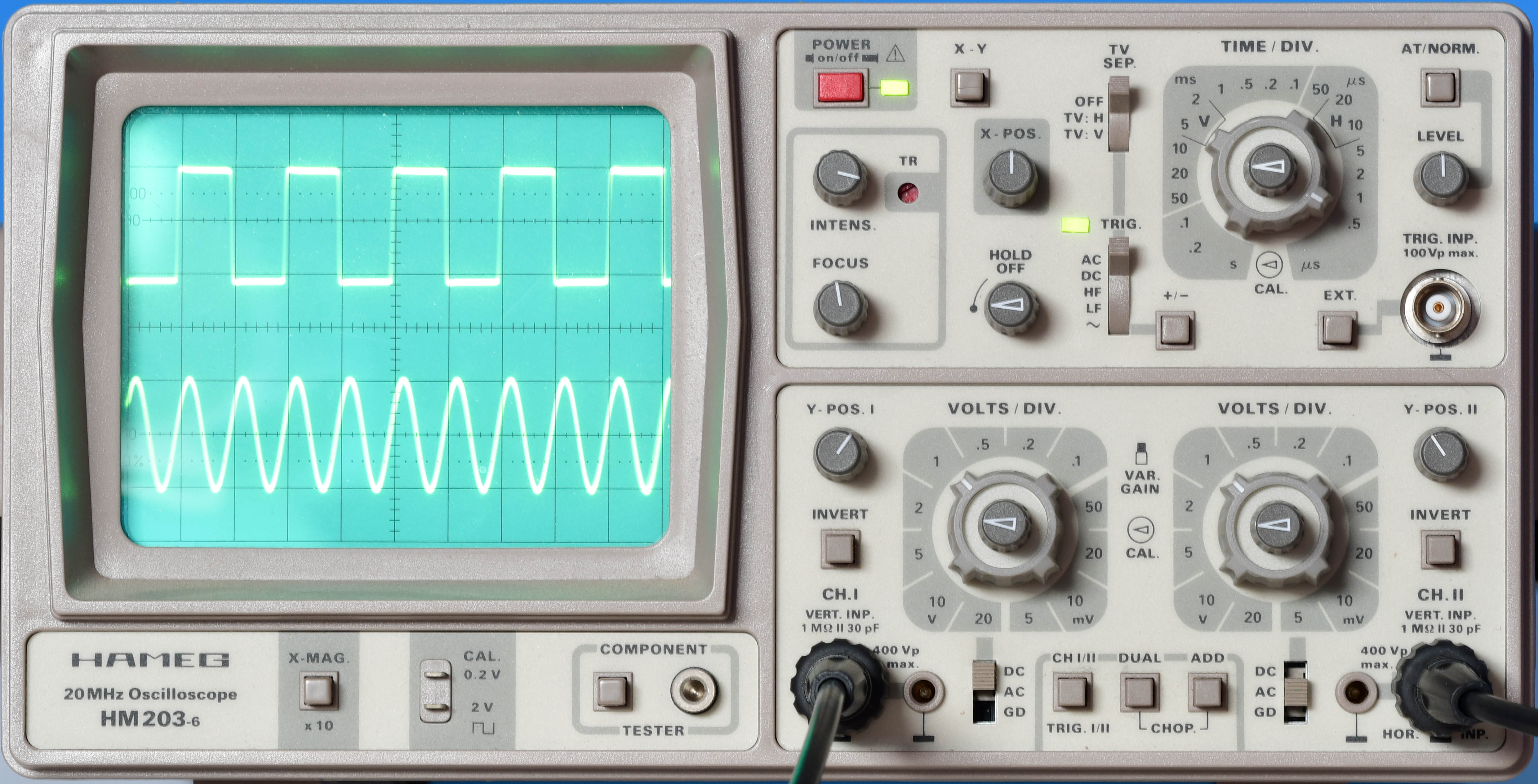 Hameg HM203-6 two channel 20MHz oscilloscope (1987)